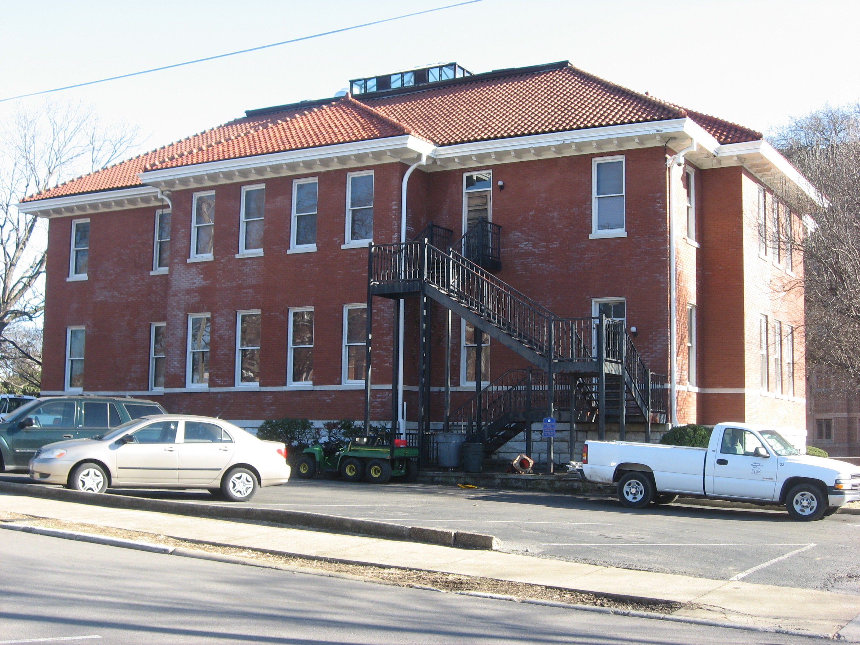 Front of the Fisk University Carnegie Library, located on Meharry Boulevard on the campus of Fisk University in Nashville, Tennessee, United States. Built in 1908 and since converted into an administration building, it is listed on the National Register of Historic Places, and it is part of a Register-listed historic district, the Fisk University Historic District.